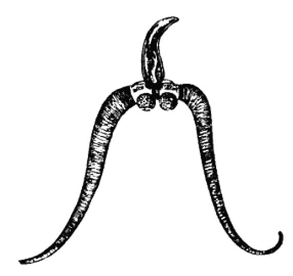 Cercaria of Bucephalus polymorphus (Digenea: Bucephalidae).